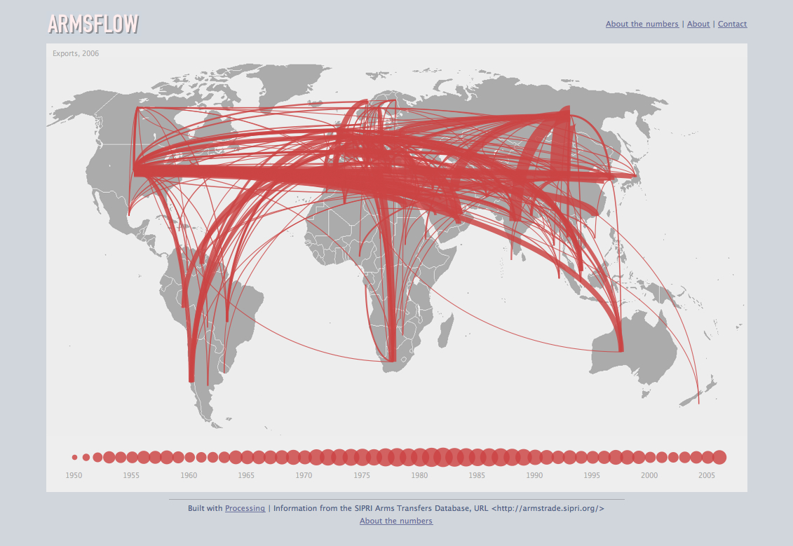 Web project depicting global weapons sales 1950-2006. Java/Processing, Ruby on Rails.